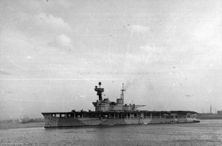 The Royal Navy aircraft carrier HMS Eagle at Alexandria, Egypt, 31 December 1940.